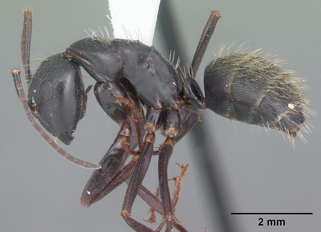 Profile view of ant Camponotus pennsylvanicus specimen casent0103692.